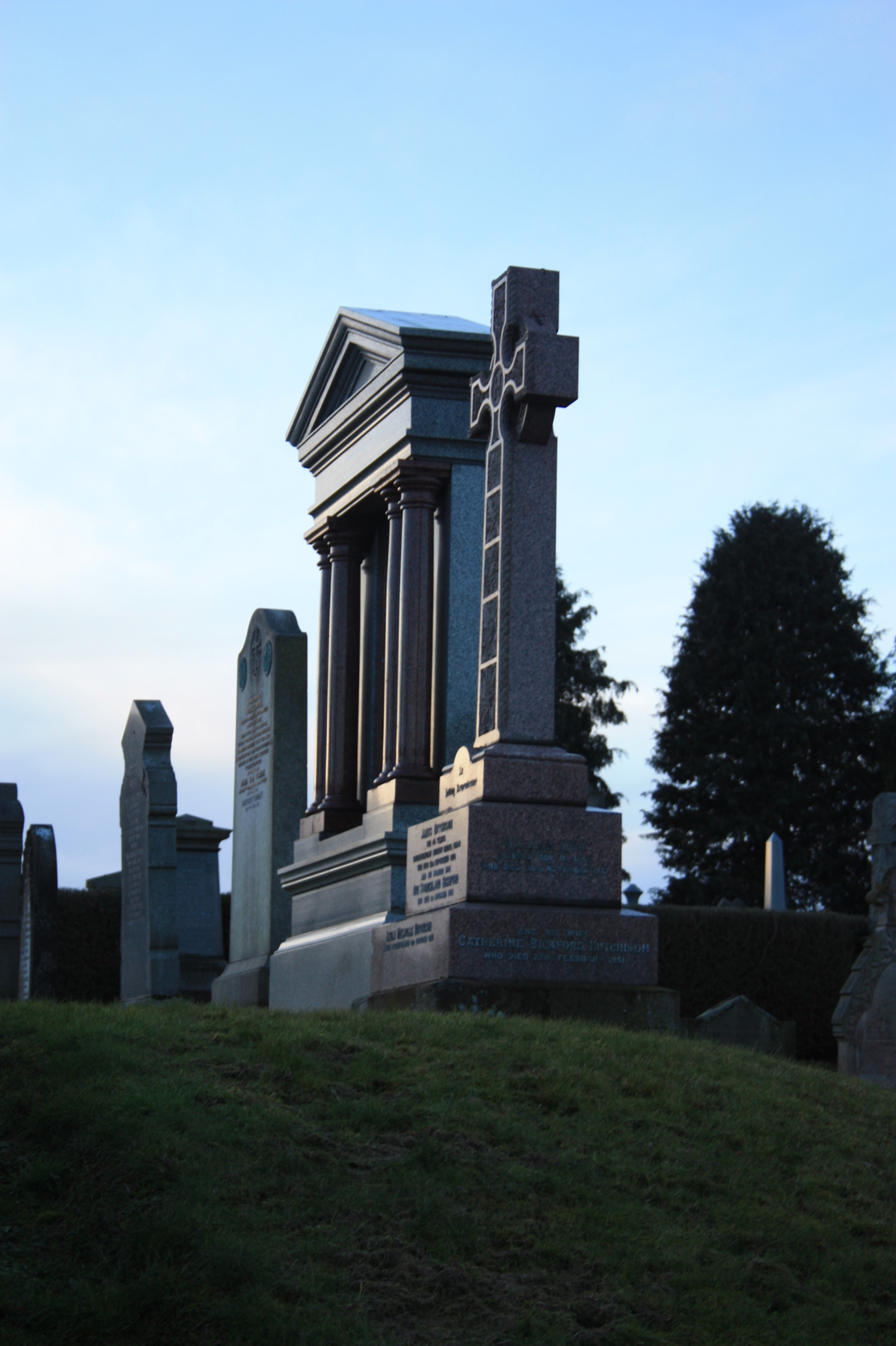 Monuments in Wellshill Cemetery, Perth